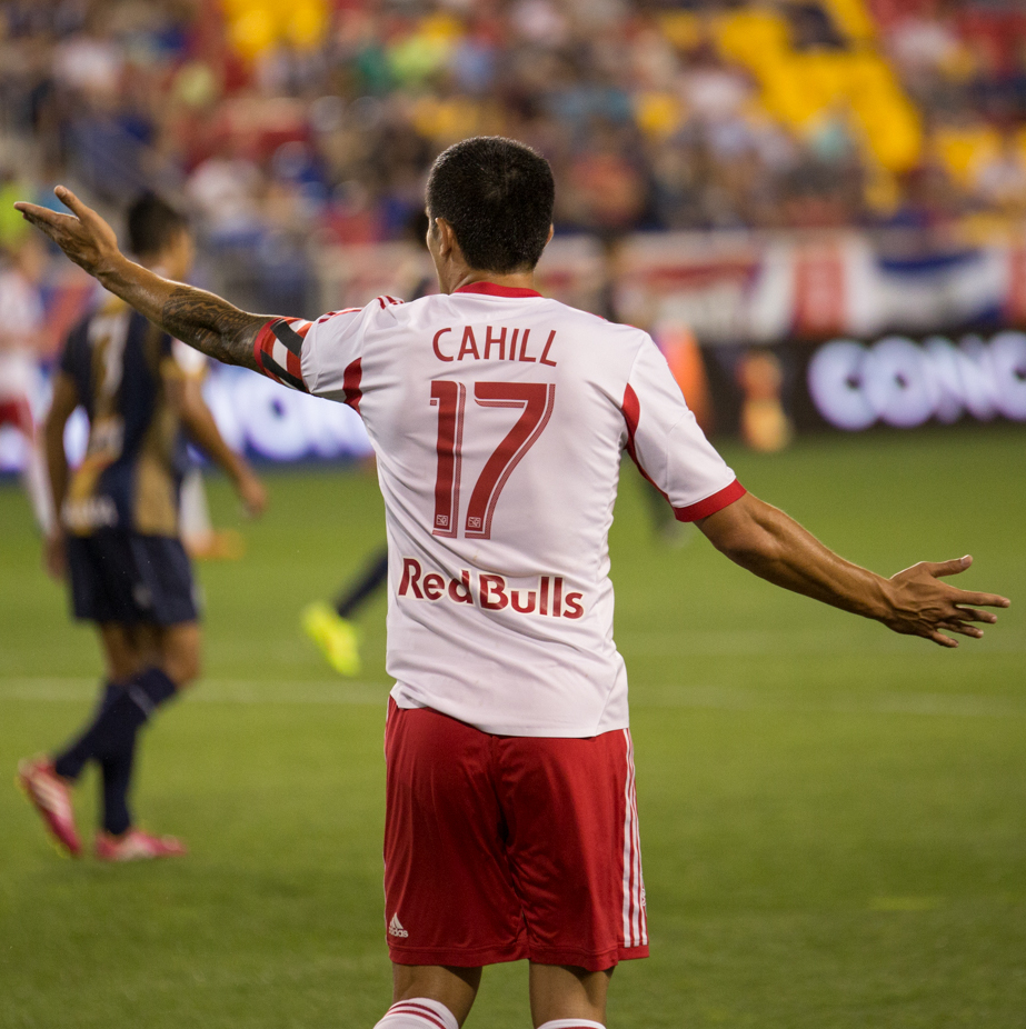 New York Red Bulls vs CD FAS at Red Bull Arena on 08/26/2014.